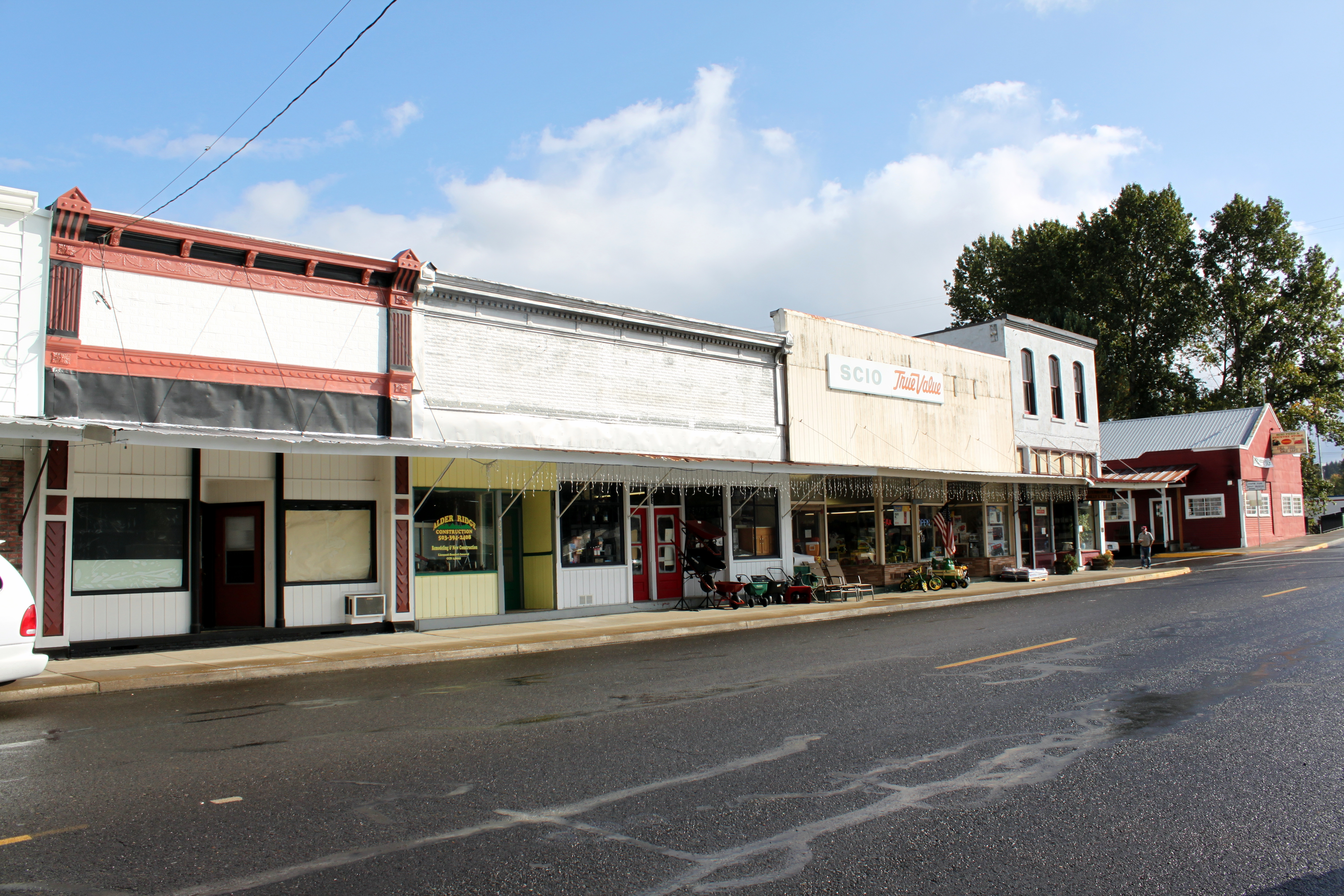 Storefronts in Scio, Oregon.